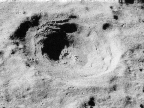 Oblique view of Harriot, on the far side of the moon. North is in upper right.